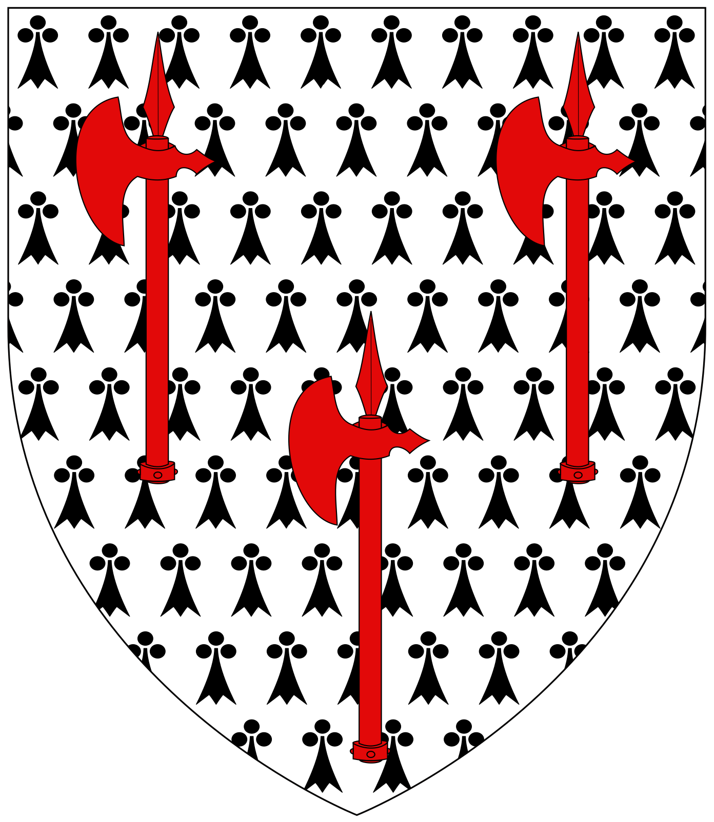 Arms of Denys of Holcombe Burnel & Bicton, Devon: Ermine, three battle-axes gules. These arms may be seen at the Livery Dole Almshouses & Chapel, Heavitree Road, Exeter